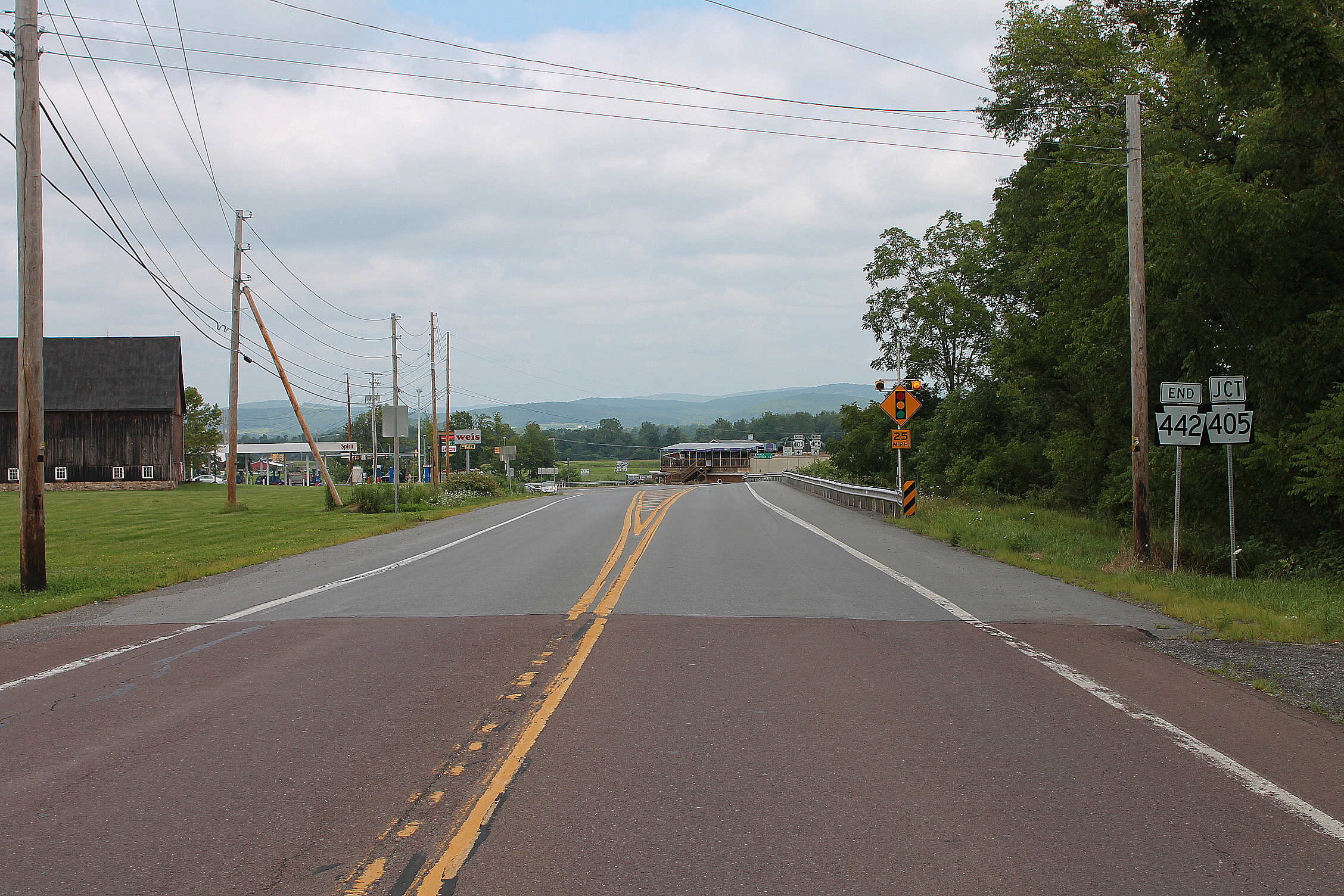 Pennsylvania Route 442 near its western terminus looking west